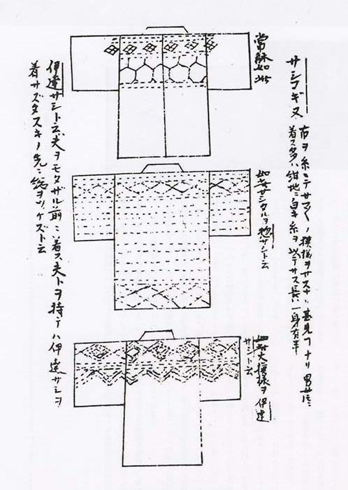 Kogin patterns recorded in 1788